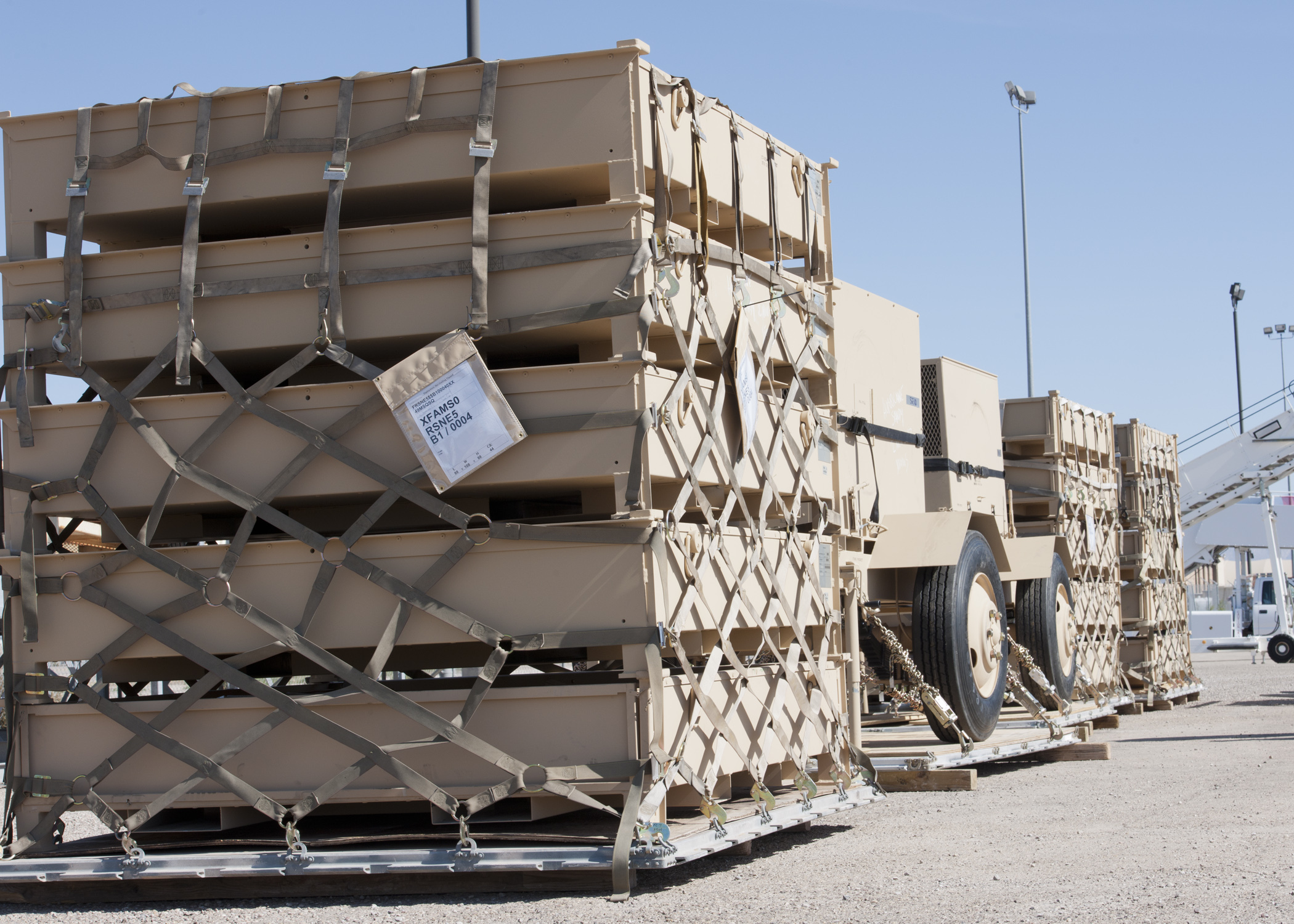 A row of pallets with supplies prepared by the 49th Materiel Maintenance Squadron, sit ready for loading at Holloman Air Force Base, N.M., Nov. 2. The 49th MMS was tasked with supporting the humanitarian relief efforts for the victims of Hurricane Sandy. In response to the tasking, the 49th MMS worked for 15 straight hours preparing more than 58,000 pounds of cargo spread across eight pallets. The cargo consisted of two water pumps capable of pumping 400 gallons of water a minute, 12,000 feet of hose, and two containers of system support items. "The 49th Materiel Maintenance Group from Holloman Air Force Base, N.M., shipped equipment today in support of Hurricane Sandy," said Col. Andrew Croft, 49th Wing commander. "We are prepared to deploy anytime, anywhere to aid civilian efforts to recover from the devastating effects of a natural disaster - in this case, Hurricane Sandy on the East Coast. Our hearts go out to those who were affected by this horrendous storm." (U.S. Air Force photo by Senior Airman DeAndre Curtiss/Released)